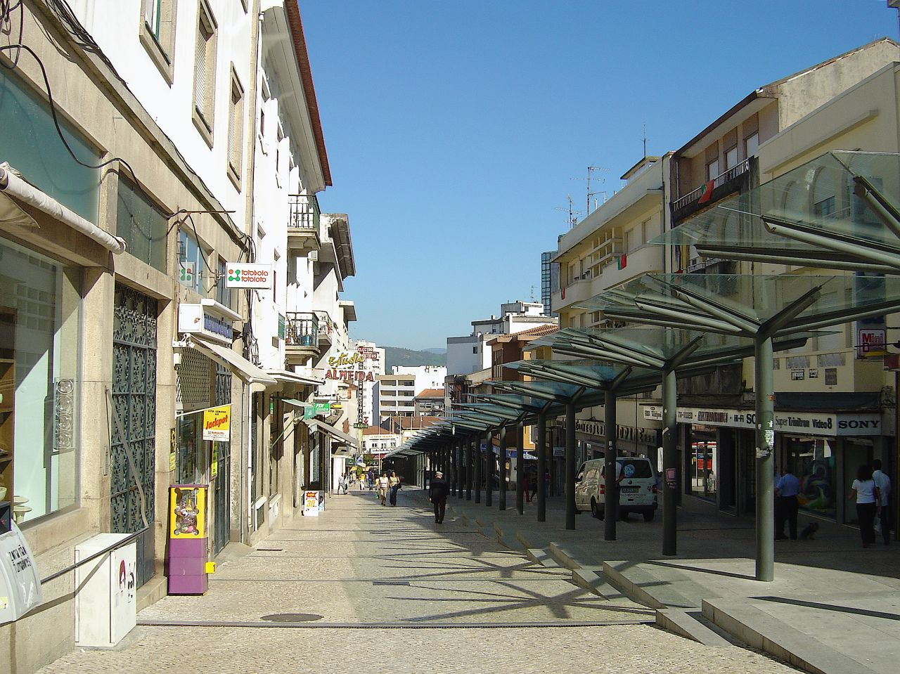 See where this picture was taken. [?]